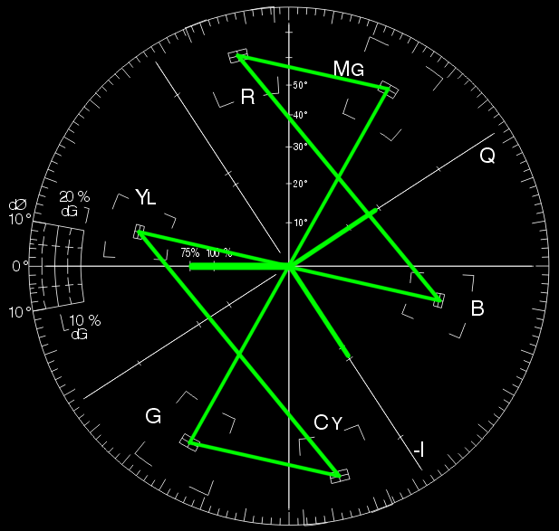 What SMPTE color bars should look like on an NTSC vectorscope if the signal is properly adjusted.